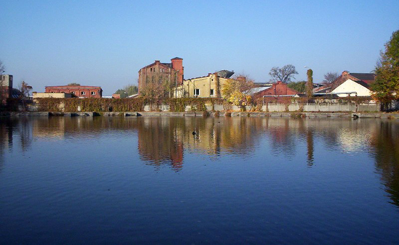 Factory pond (Pond on Bielnik), and linen factory buildings in Żyrardów, Poland.